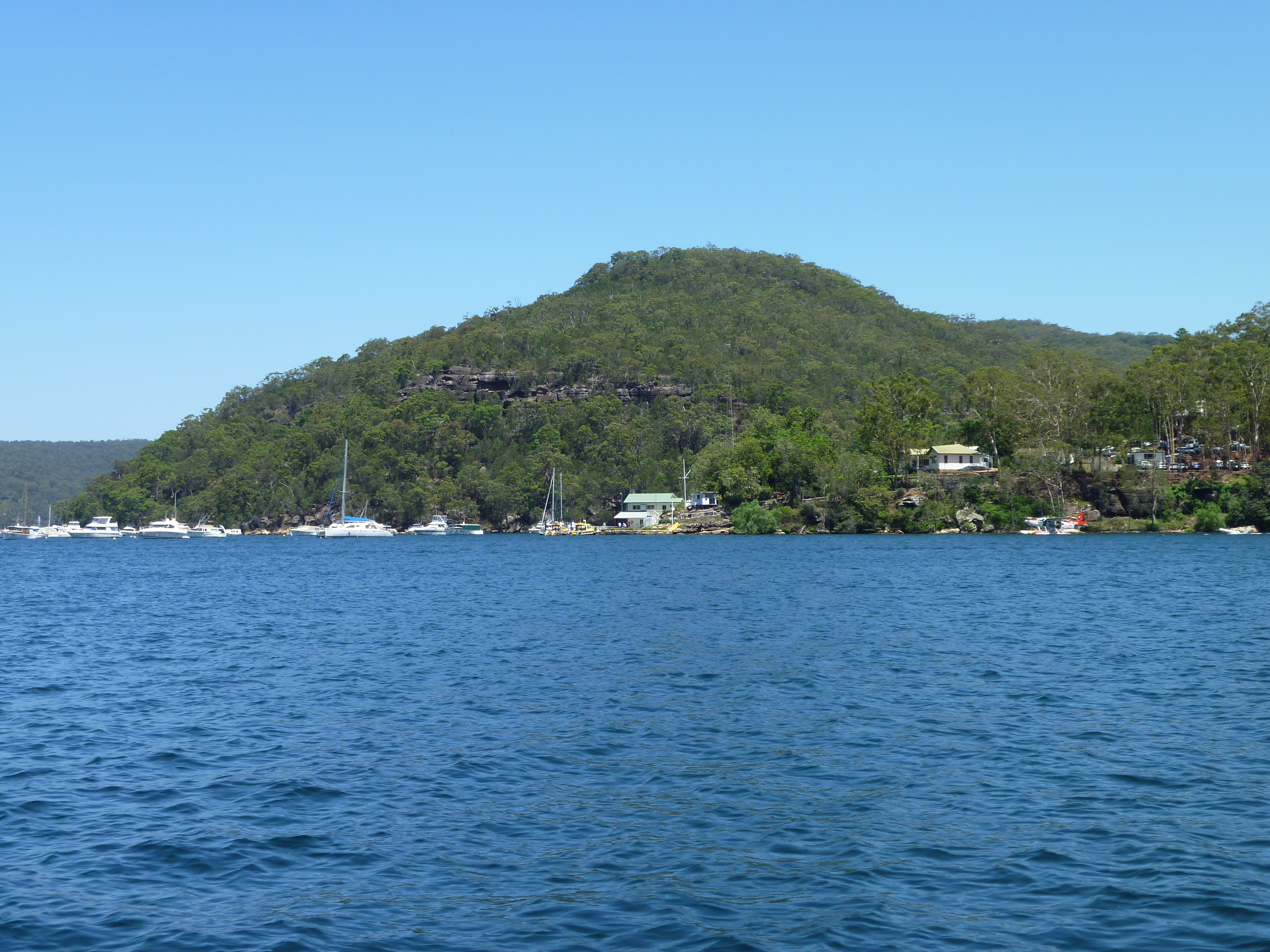 view to cottage point